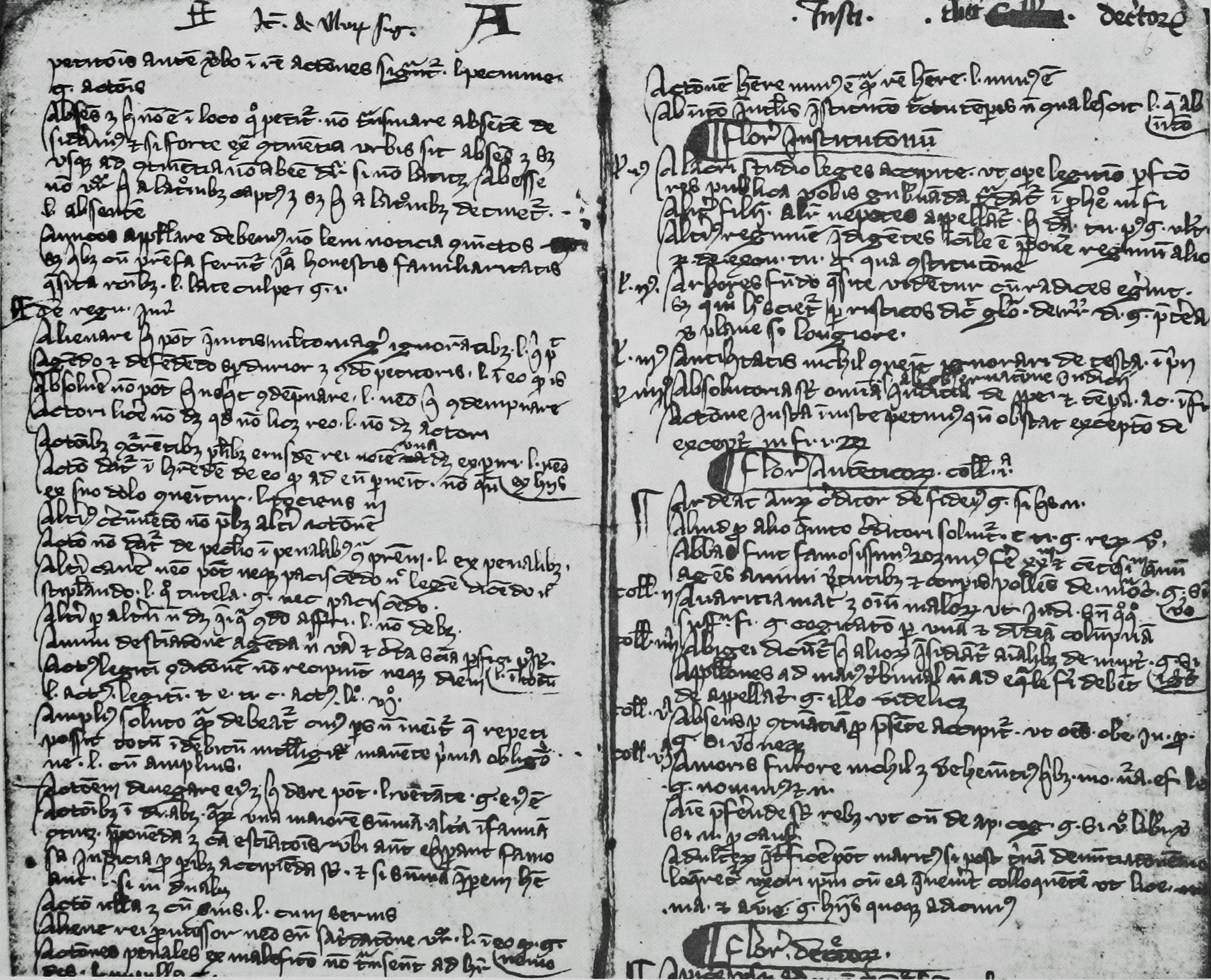 Jan van Hocksem / Jean de Hocksem: Digitus florum utriusque iuris, 1341 (Regionaal Historisch Centrum Limburg, Maastricht, ms. 215). Part of the manuscript contains the original writing by Van Hocksem, part of it is a 15th-century copy from Liege.